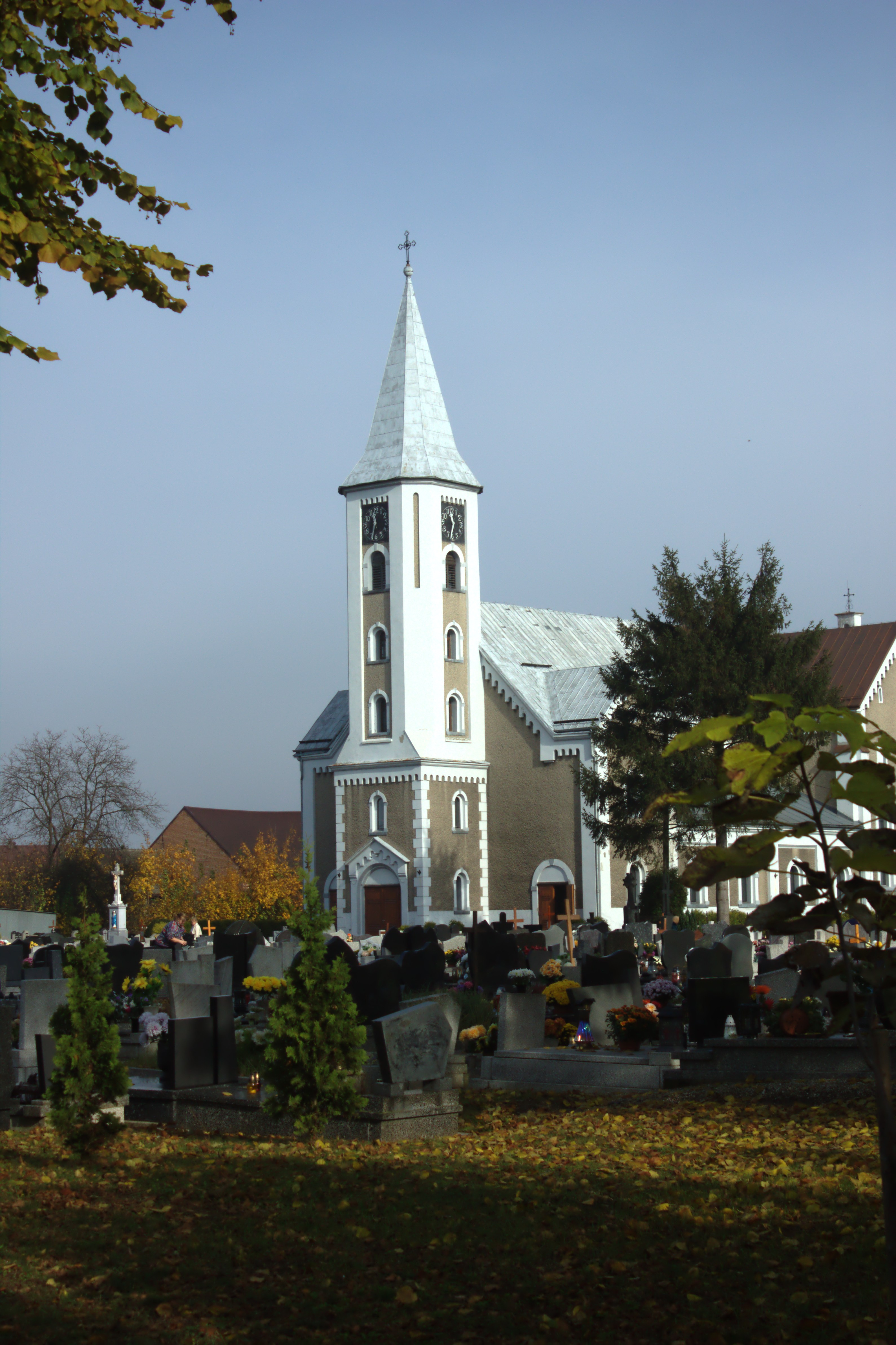 Church in the village of Turze, Silesian Voivodeship, PL